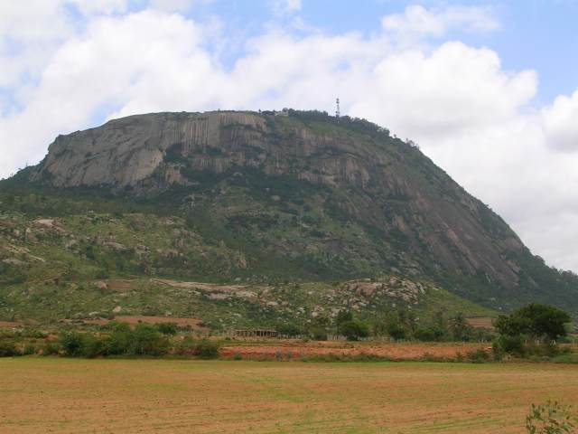 Nandi Hills, Bangalore, India. Hill view from below.